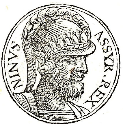 Ninus was a king of Assyria and the eponymous founder of the city of Nineveh, which itself is sometimes called Ninus.